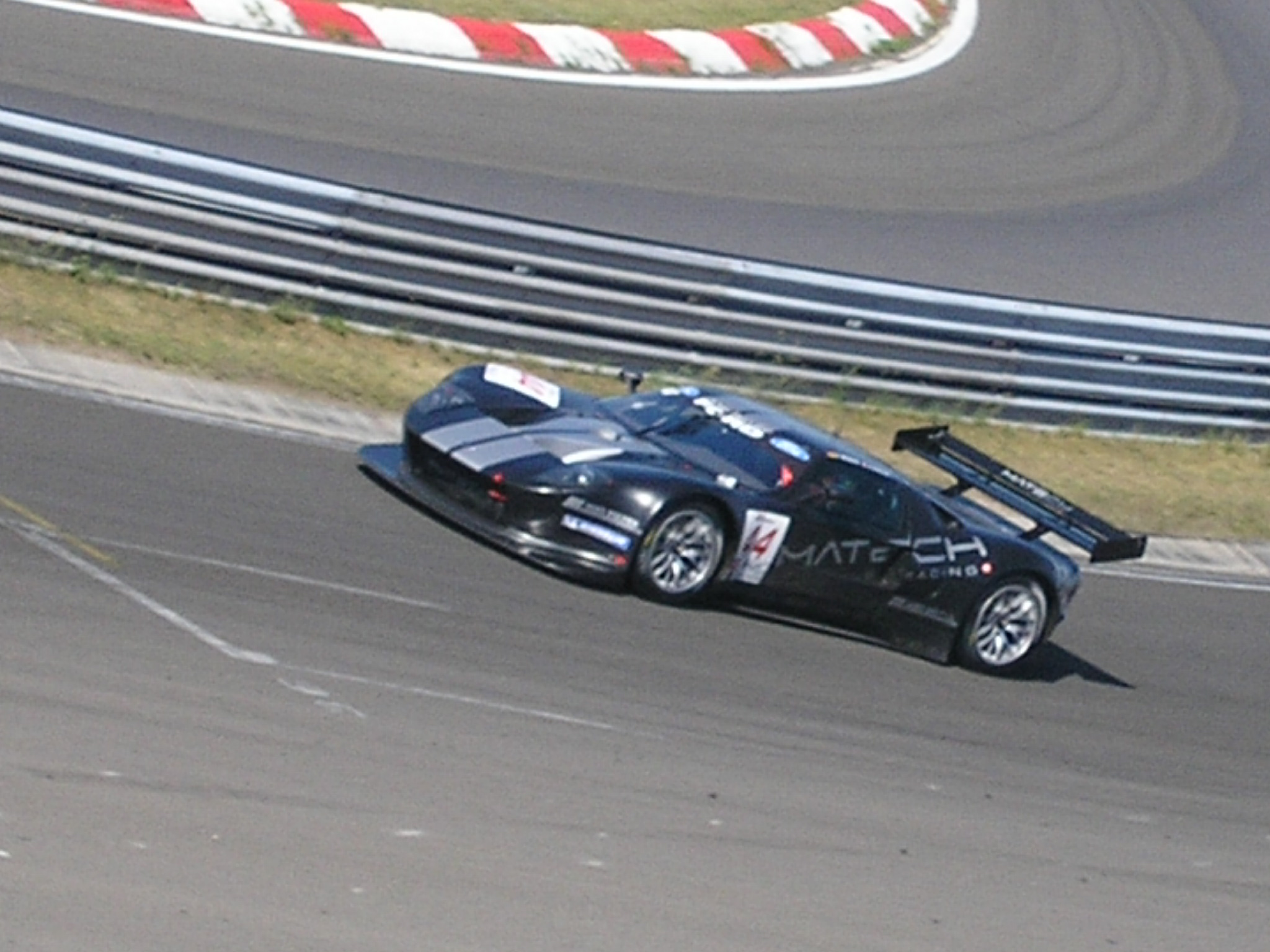 2009 FIA GT Budapest City